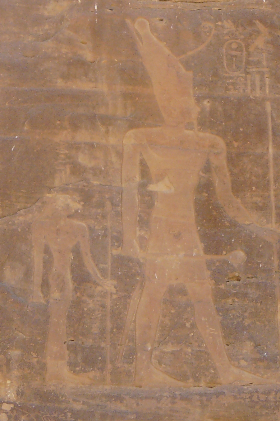 The ancient Egyptian queen Iah (left) and her son, pharaoh Mentuhotep II (right), closeup of a petroglyph of the 11th Dynasty at Shatt er-Rigal.